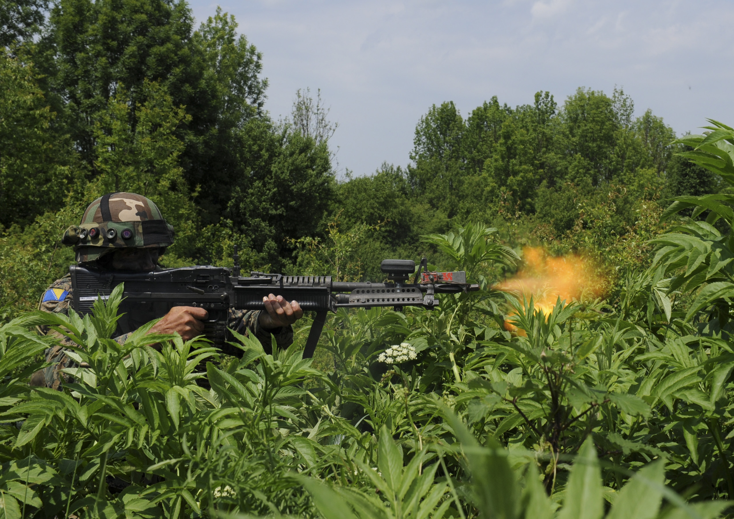 A machine gunner with the Armed Forces of Bosnia and Herzegovina, lays down suppressing fire while on an ambush Situational Training Exercise during Immediate Response 2012 held at the Slunj Training Area 1 June. Immediate Response 2012 is a multinational tactical field training exercise that will involve more than 700 personnel primarily from the U.S. Army Europe’s 2nd Calvary Regiment and Croatian armed forces, with contingents from Albania, Bosnia-Herzegovina, Montenegro and Slovenia. Macedonia and Serbia will send observers to the exercise. The exercise is a part of U.S. European Command's joint training and exercise program designed to enhance joint and combined interoperability between the U.S. Army, U.S. Air Force and partner nations, and will help prepare participants to operate successfully in a joint, multinational, interagency, integrated environment. (U.S. Army Europe photo by Staff Sgt. Joel Salgado/Released)